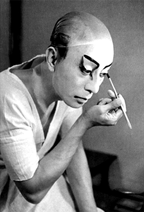 Ebizō Ichikawa IX (1909–65)